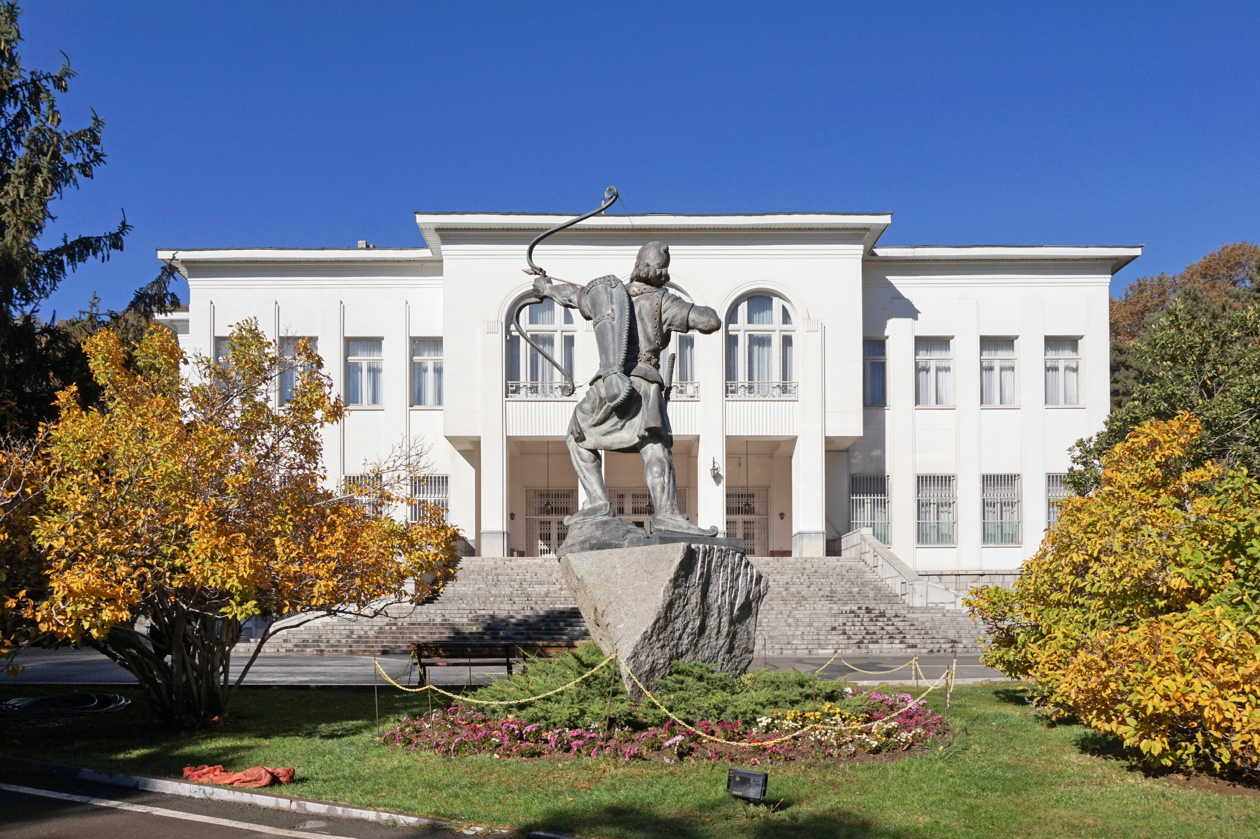 Mellat Palace Museum (White Palace), Sa'dabad Complex, Tehran, Iran